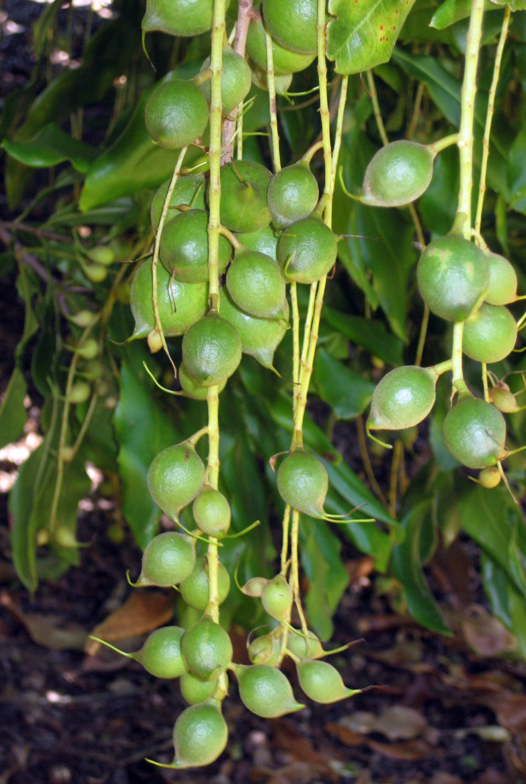 Macadamia (variety N7) nuts on the tree, Helensville, Auckland district, New Zealand